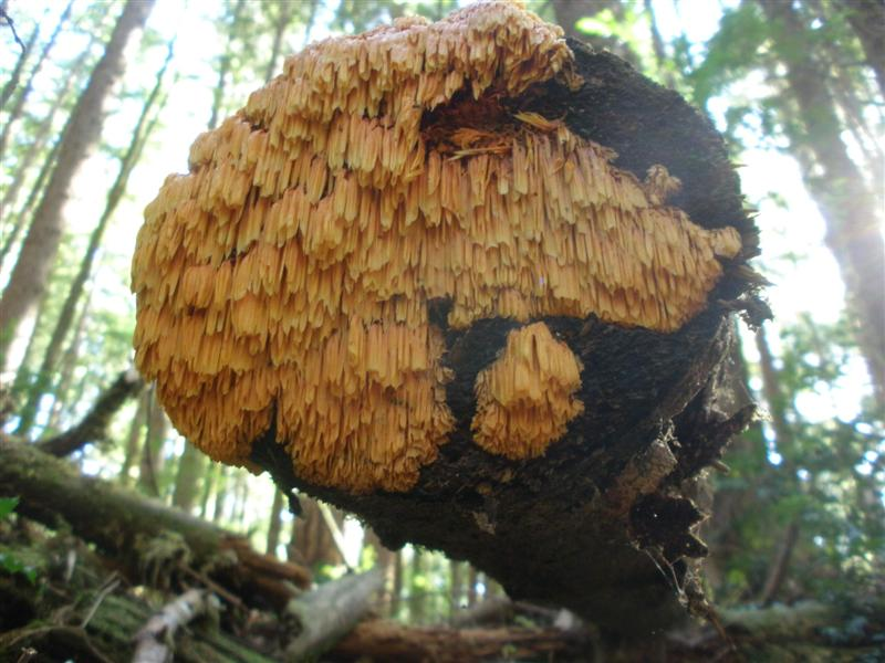 Fruit body of the fungus Pycnoporellus alboluteus Ellis & Everh.) Kotl. & Pouzar. Photographed in Florence, Oregon, USA.